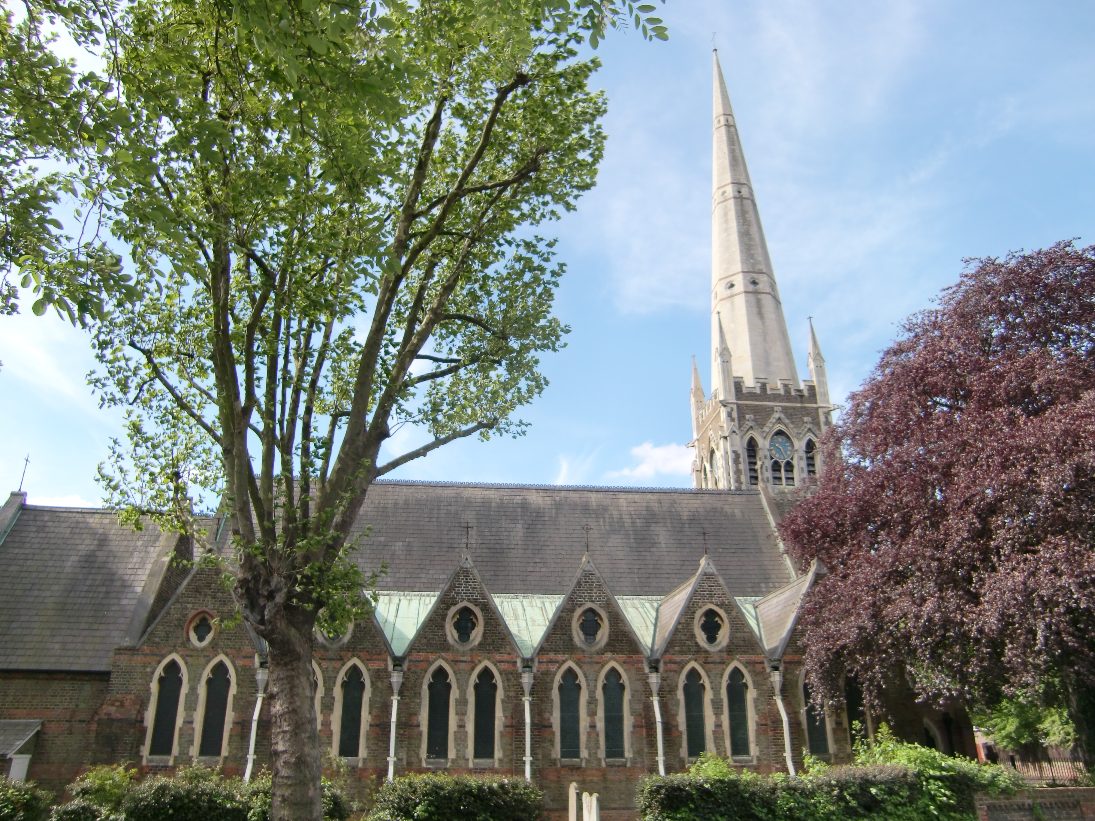 St James, Hampton Hill. From the other side of Park road